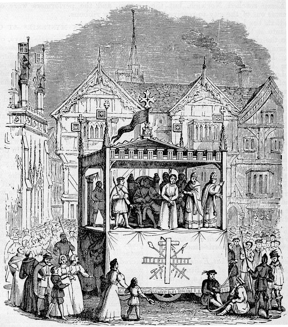 This elaborate image, Representation of a Pageant Vehicle at the time of Performance, was commissioned as the frontispiece to A Dissertation on the Pageants or Dramatic Mysteries Anciently Performed at Coventry by the Trading Companies of that City, (1825) by Thomas Sharp, (1770-1841). The image was designed and executed in copper engraving by David Gee (1793-1872). It recreates a 15th-century Passion play (The Trial and Crucifixion of Christ) by the Smiths' Company of Coventry. Many of the details are based on written accounts, including pageant wagon design itself and the people in the street. The scene on stage depicts Christ, with hands bound, before an enthroned Pilate. Annas and Caiaphas are shown in mitred hats, and a boy carries a bowl of water for Pilate to wash his hands. Although somewhat speculative, the image has been influential and is often reproduced.